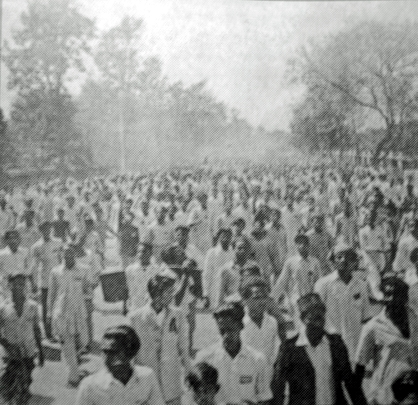 February 22, 1952 After GAYEBI JANAZA at Dhaka Medical Collage SOK RALLY on DU road, Dhaka, East Pakistan